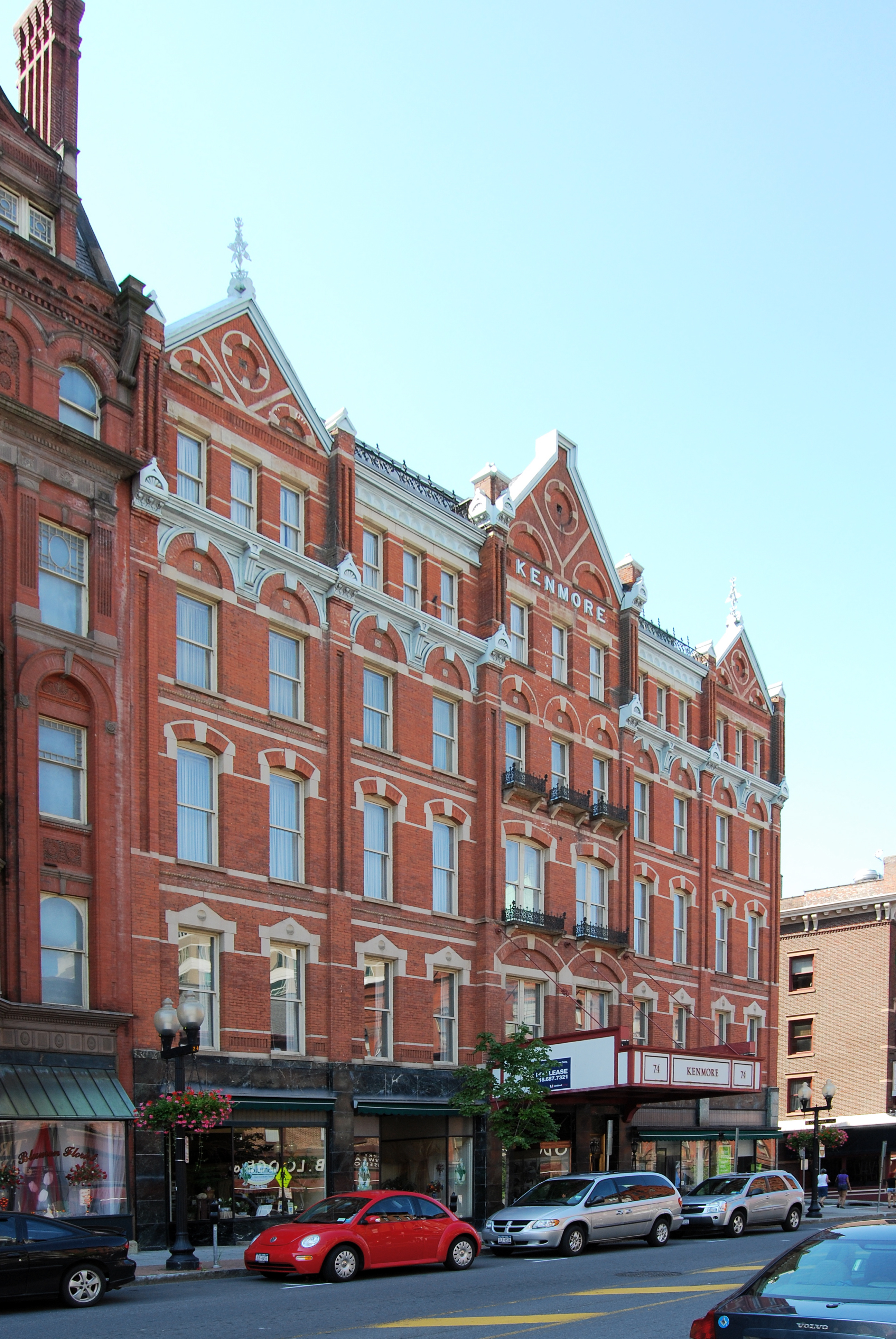 The Kenmore Hotel in Albany, New York, United States, built in 1873, which is a contributing property to the Downtown Albany Historic District